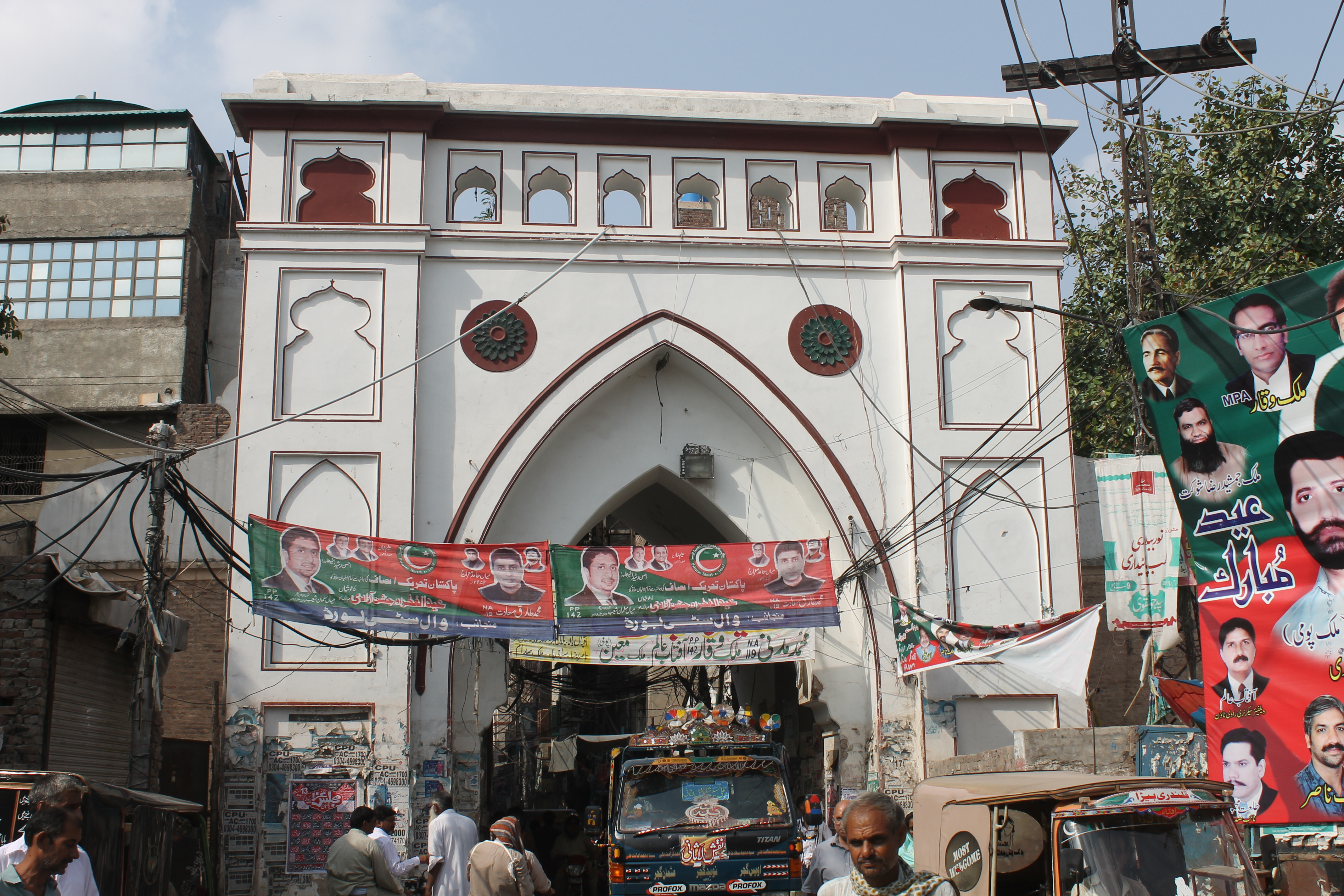 Bhati Gate This is a photo of a monument in Pakistan identified as the PB-48